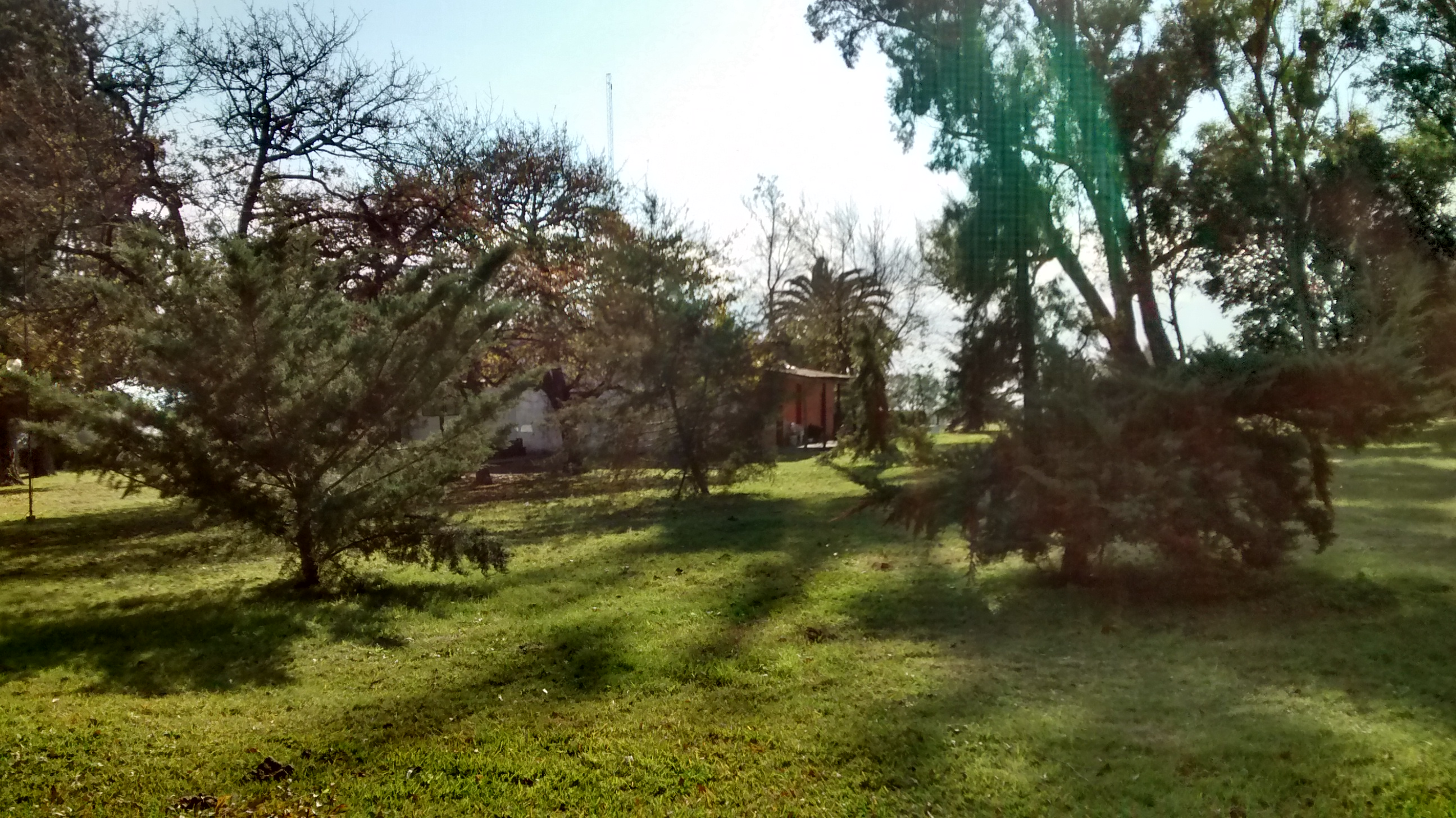 Colonia Avigdor (Entre Ríos): En esta antigua colonia judía está trabajando la Fundación Judaica para la recuperación de pequeñas industrias relacionadas con la agricultura y ganadería. La Comisión Nacional de Monumentos se suma a este proyecto con asesoramiento para la recuperación de los edificios históricos del pueblo. Además, se gestionó ante la Dirección Nacional de Arquitectura un crédito para la realización de obras de infraestructura que fue aprobado.